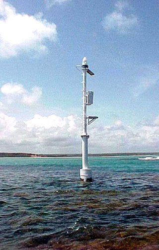 Pitimbu